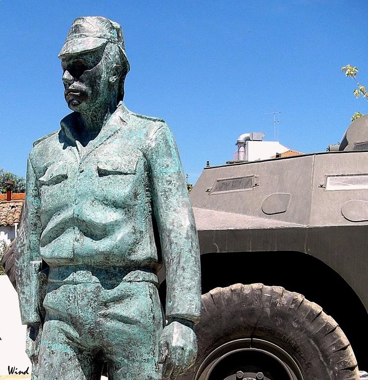 picture of the monument devoted to Captain Salgueiro Maia